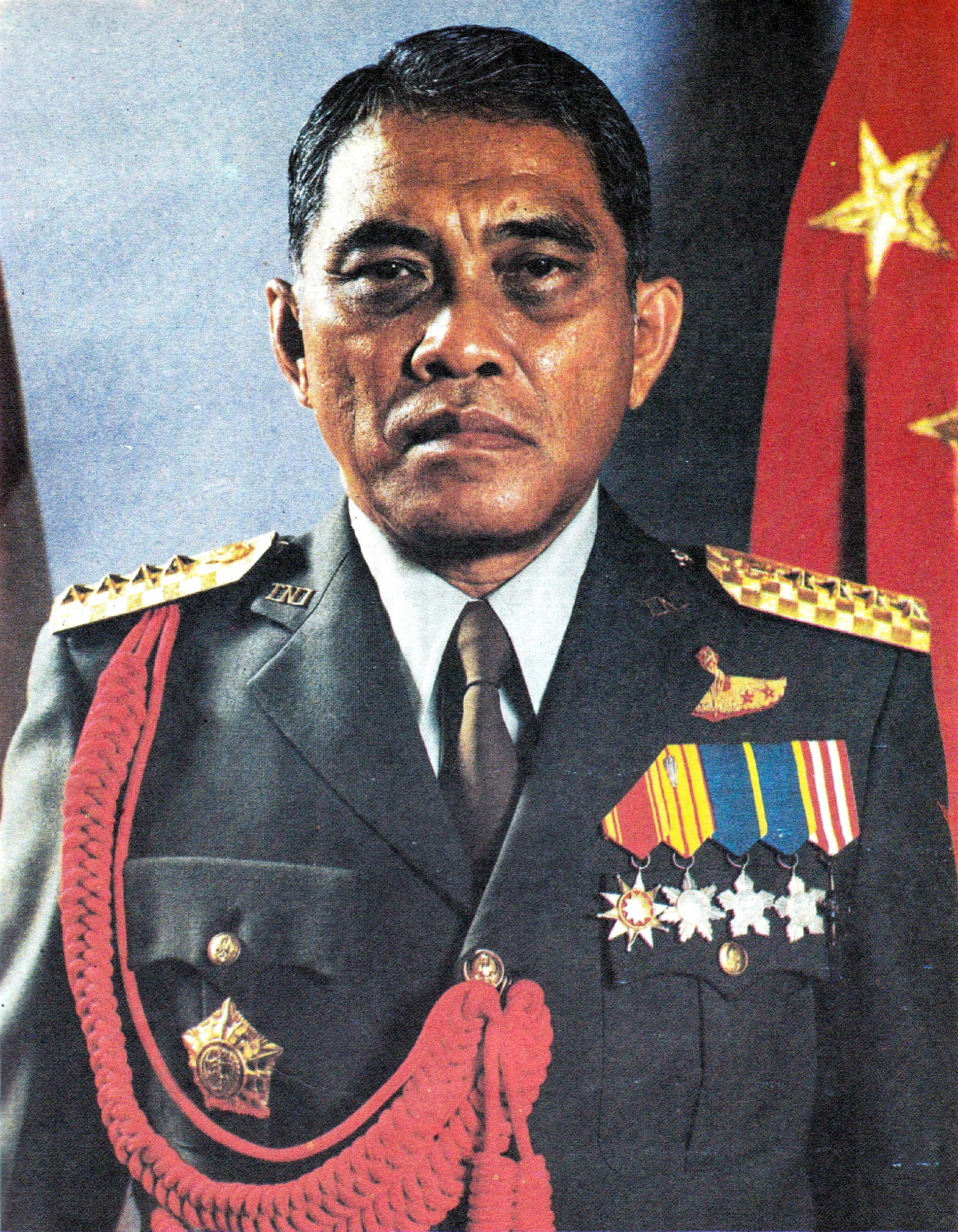 Portrait of Leonardus Benjamin Moerdani, Commander of the Indonesian National Armed Forces from 1983 until 1988.